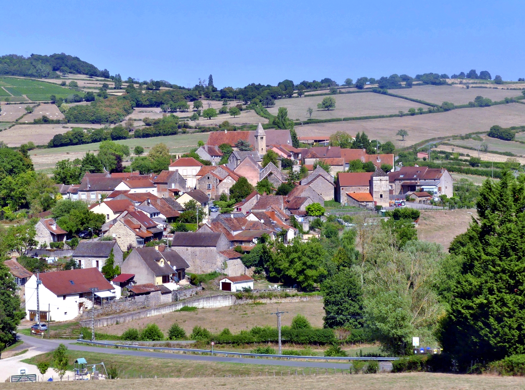 Sight, from the high speed railway line from Paris to Lyon and Marseille, of Vaux-en-Pré village, in Saône-et-Loire, France.